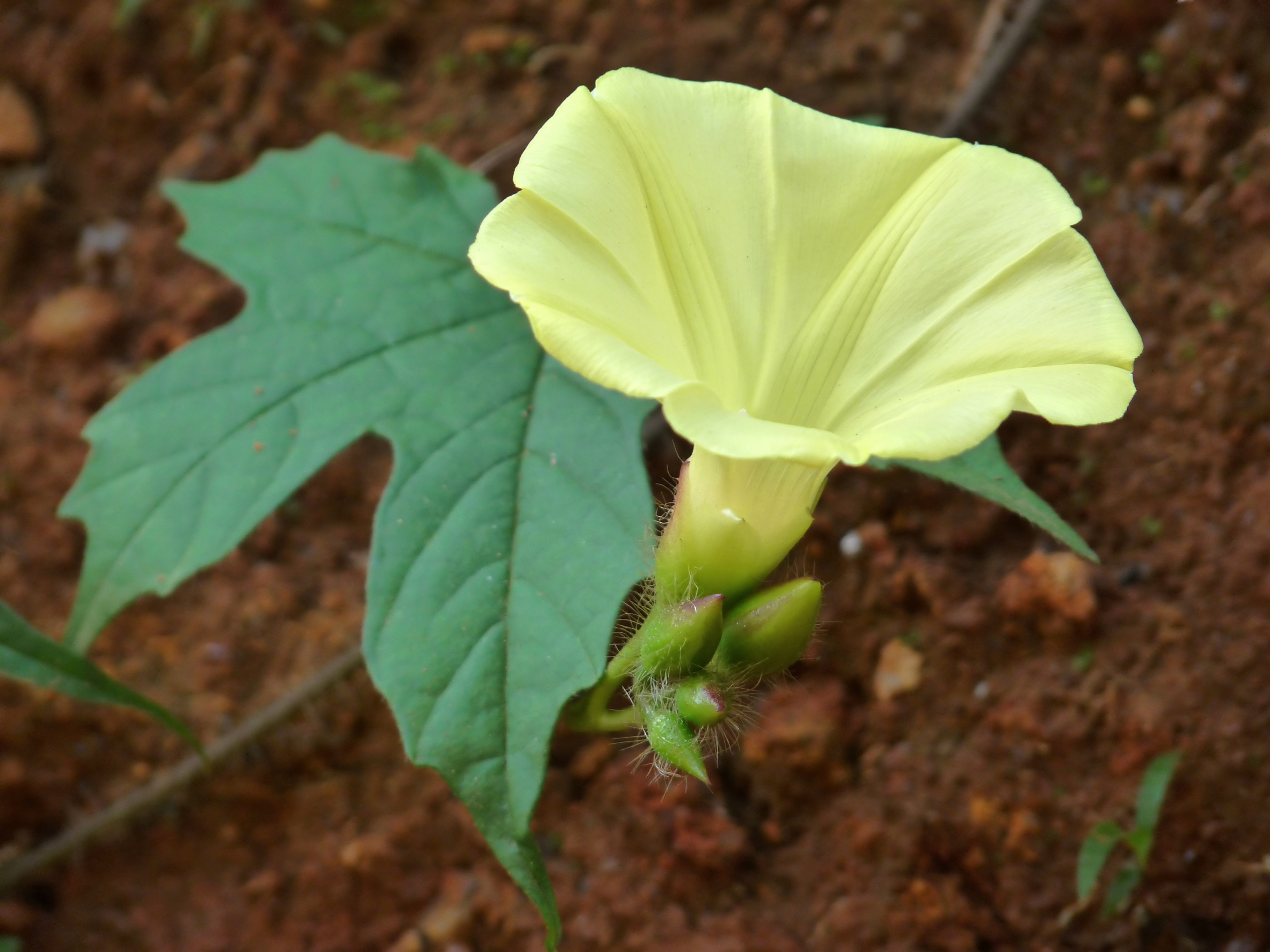 Merremia vitifolia, Grape-leaf Wood Rose is large twinning or prostrate herb. The stems are purplish when old, and grow to 4 m long. Leaf blade is circular in outline, 5-18 by 5-16 cm, cordate at the base, palmately 5-7-lobed. Flower-buds narrow-ovoid, acute. Flower tube is funnel shaped -6 cm long, glabrous, bright yellow, paler towards the base. Anthers spirally twisted. Found both in regions with a feeble and in those with a rather strong dry season, in open grasslands, thickets, and hedges, along fields, in teak-forests, along edges of secondary forests, on river-banks and waysides. Grape-leaf Wood Rose is native to India and Sri Lanka to Indo-China and the Andamans, throughout Malaysia. Taken at Aanakkulam, Kerala, India.